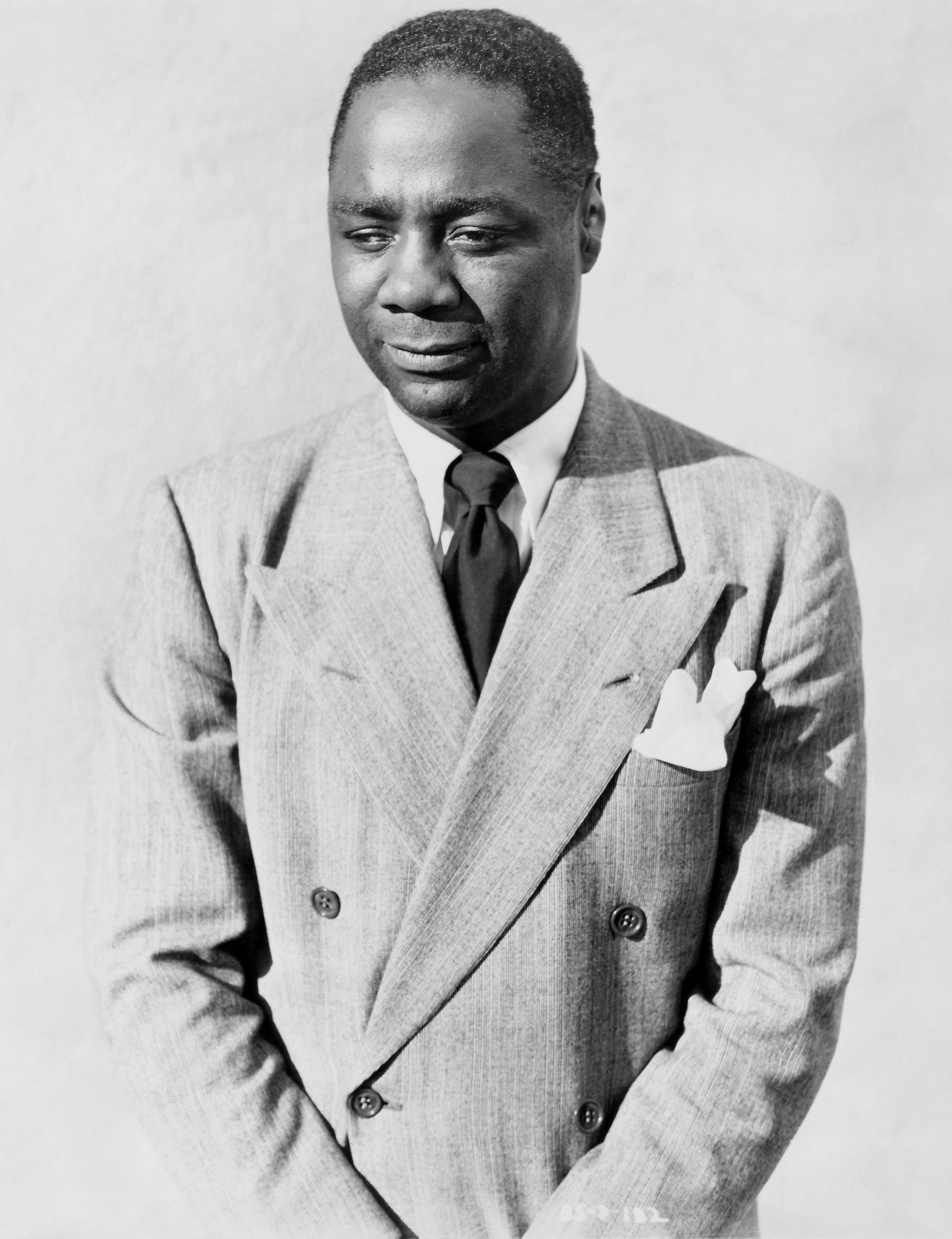 Publicity photograph of Canada Lee, promoting the 1947 Enterprise Studios film production, Body and Soul, distributed by United Artists